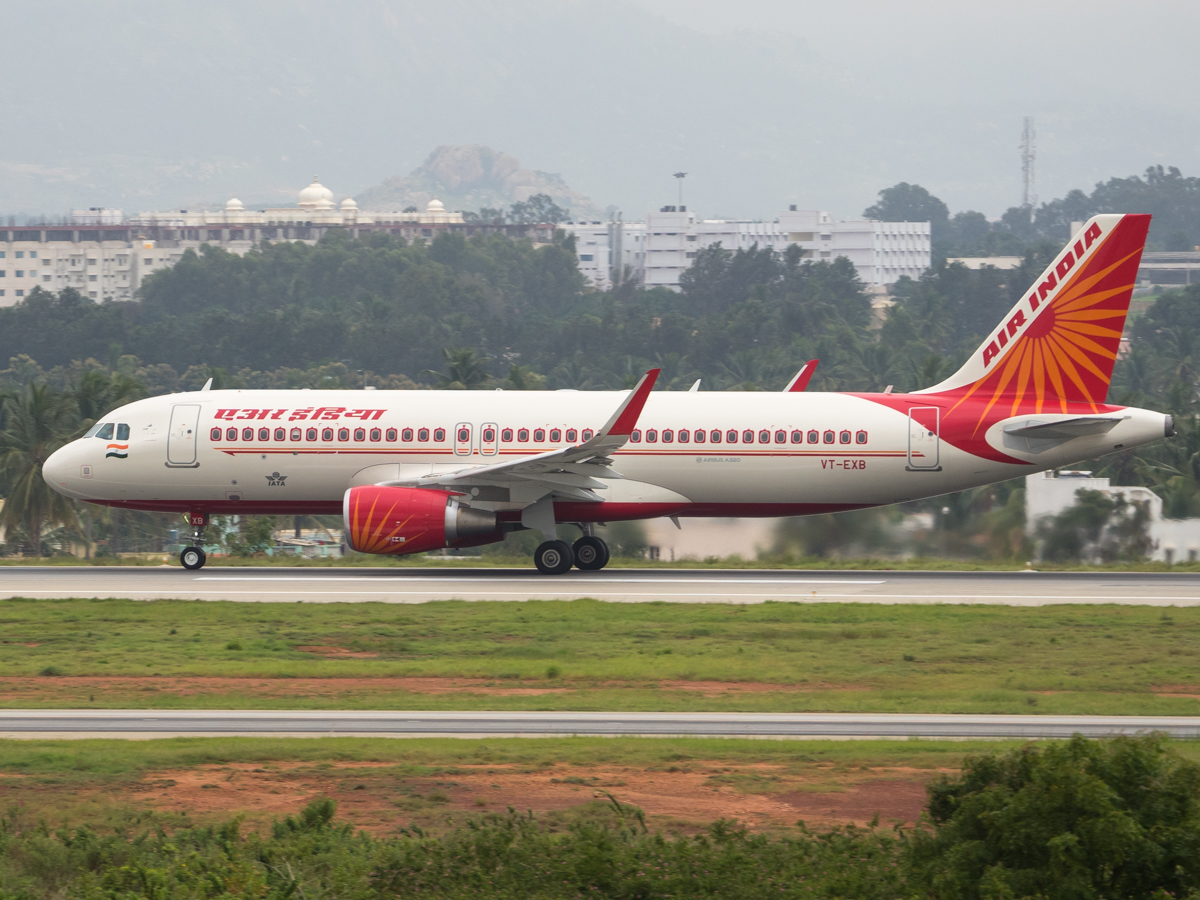 Air India Airbus A320 registered VT-EXB at Kempegowda Intl Airport Bengaluru